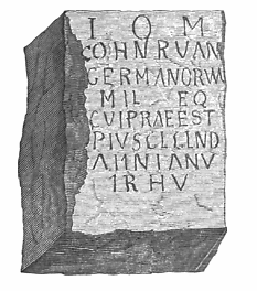 Altar dedicated to Jupiter Optimus Maximus. Found 1825 in the River Eden about 800 m. north of Beaumont, Burgh by Sands (GB). Later seen by Skinner in the garden of George Law, Bishop of Bath and Wells. Cut down to make a building-stone. Now apparently lost. Translation: To Jupiter, Best and Greatest, the First Nervan Cohort of Germans, a thousand strong, part-mounted, (set this up) under the command of Publius Tuscilius … ]asinianus, the tribune.